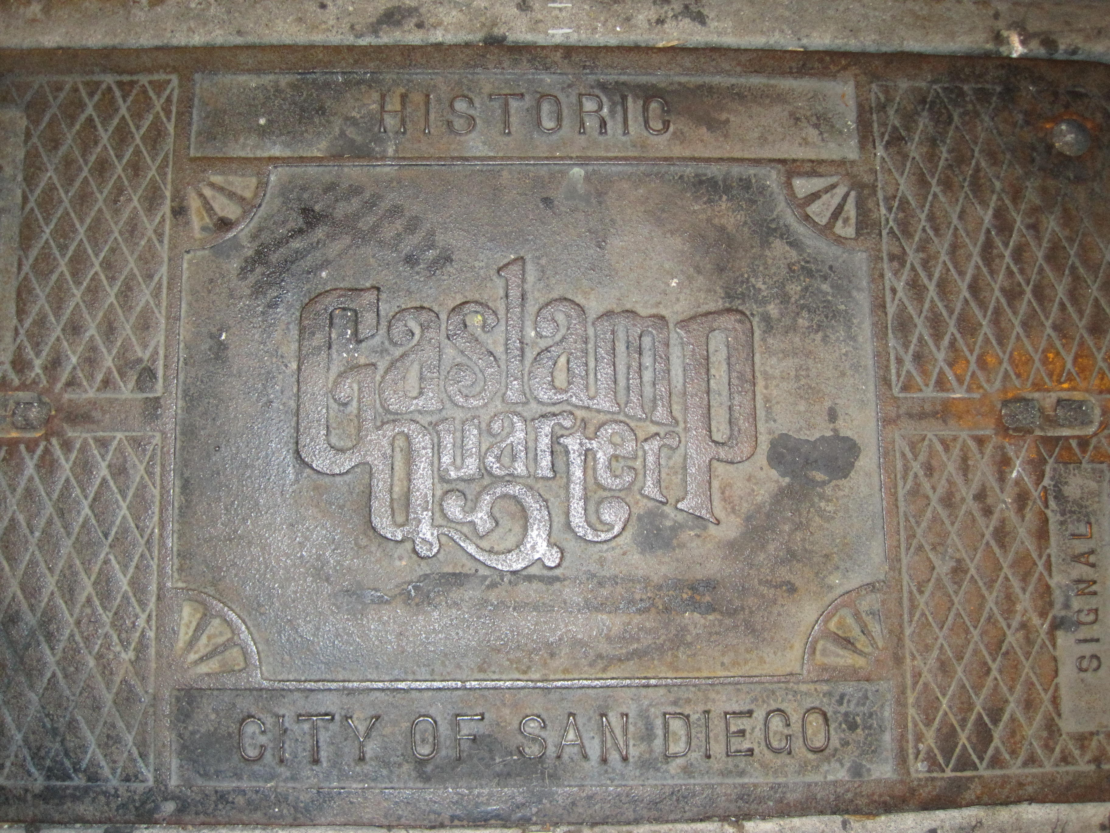 A street panel cover in the Gaslamp Quarter of San Diego, California.